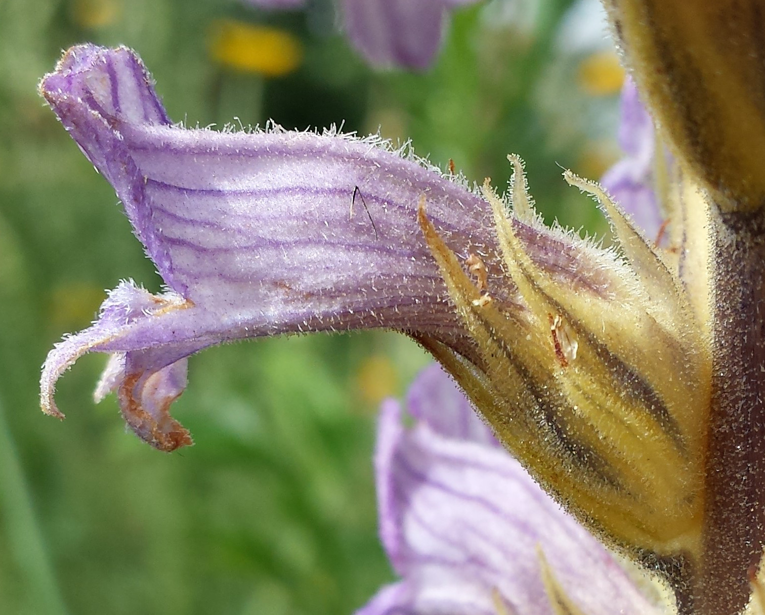 Flower Taxonym: Phelipanche purpurea (s. str.) ss Fischer et al. EfÖLS 2008 ISBN 978-3-85474-187-9 Location: Waschberg near Leitzersdorf, district Korneuburg, Lower Austria - 320 m a.s.l. Habitat: fallow land